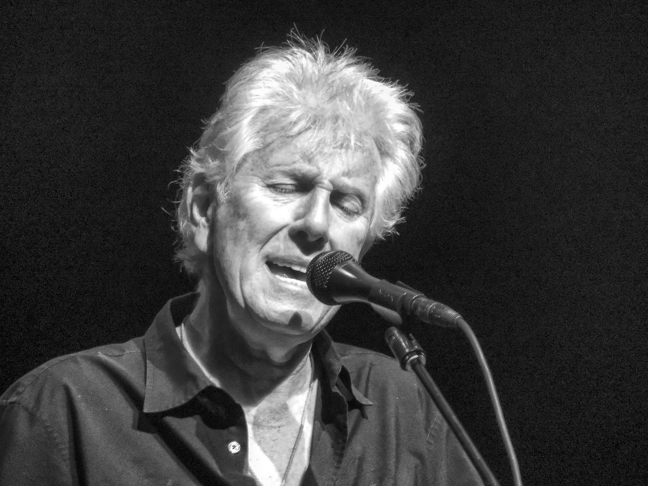 Crosby, Stills & Nash!